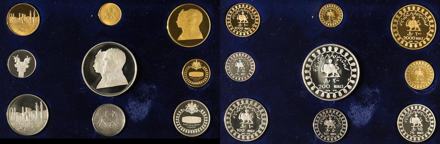 Commemorative set of gold and silver coins minted in Canada for 2500th anniversary of Iranian Empire